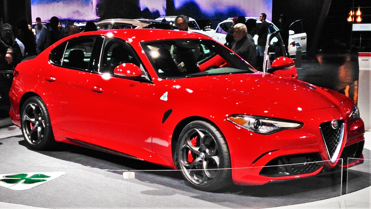 Alfa Romeo Giulia Quadrifoglio Verde at the 2015 LA auto show